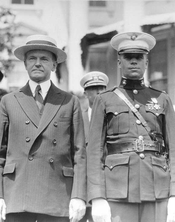 U.S. President Calvin Coolidge and First Lieutenant Christian F. Schilt, USMC: At the White House on the occasion of the presentation of the Medal of Honor to First Lieutenant Schilt, circa 1928.